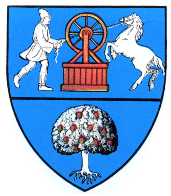 Interwar coat of arms of Vâlcea County, Kingdom of Romania.